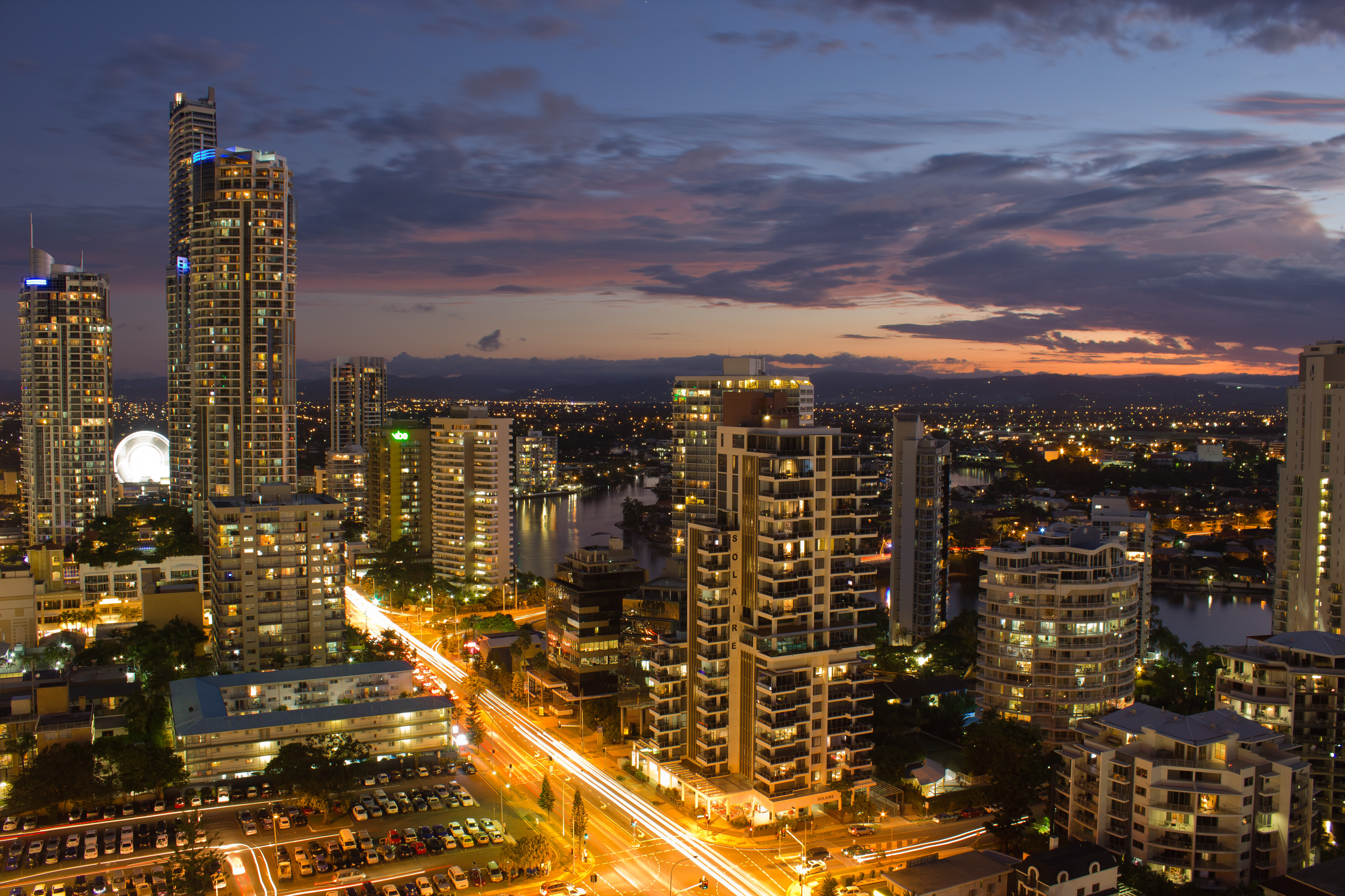 The Gold Coast skyline at sunset in Queensland, Australia.